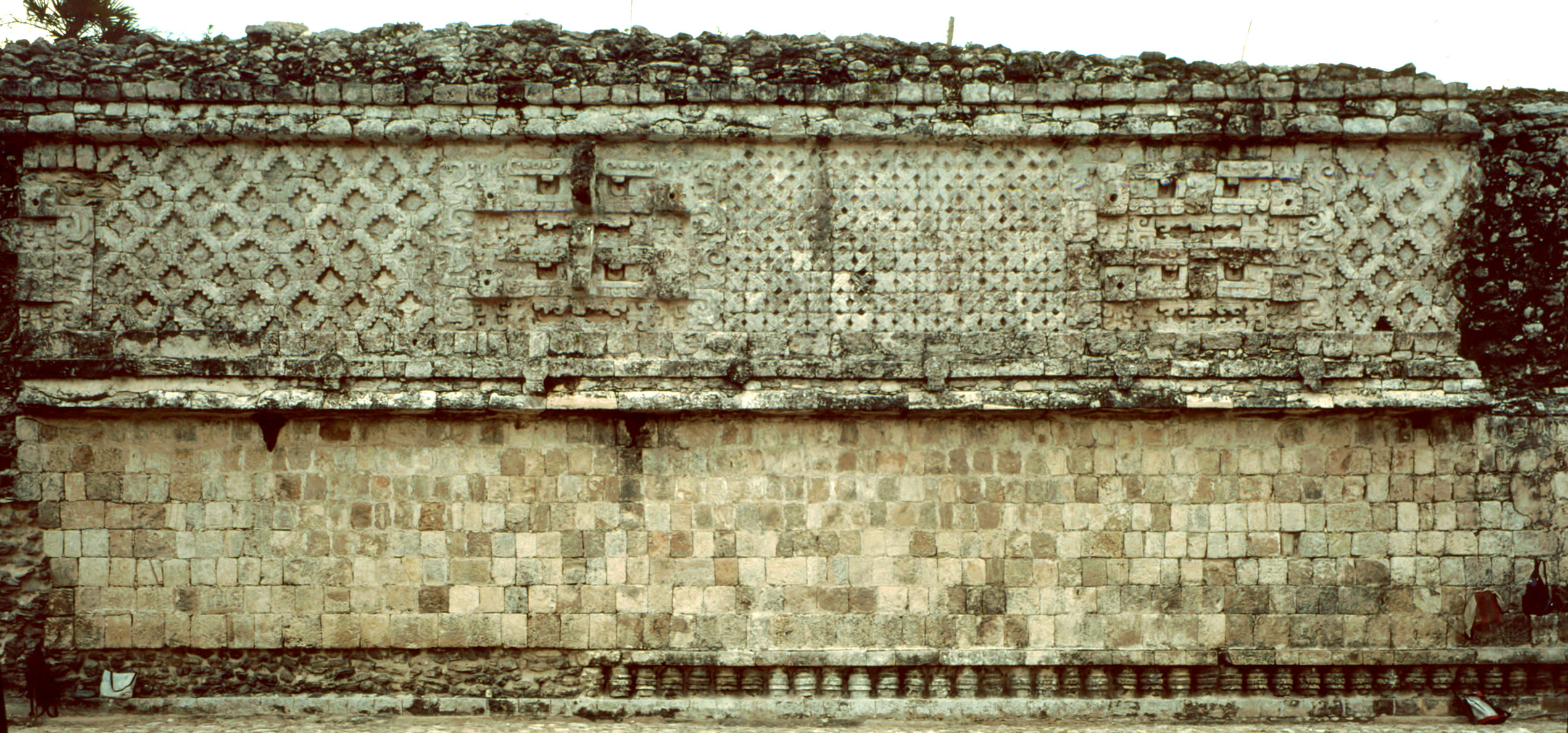 Culubá,Yucatan, Mexico: Puuc stly rear side of main building.